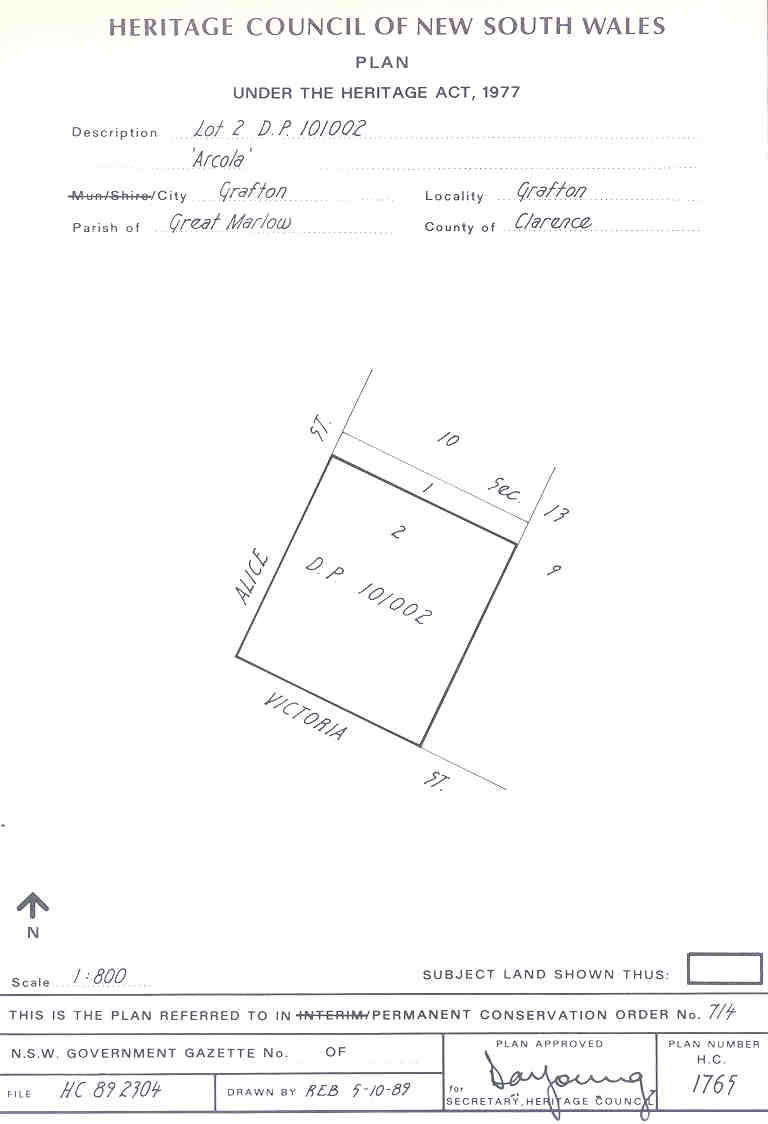 Arcola, Grafton: PCO Plan Number 714